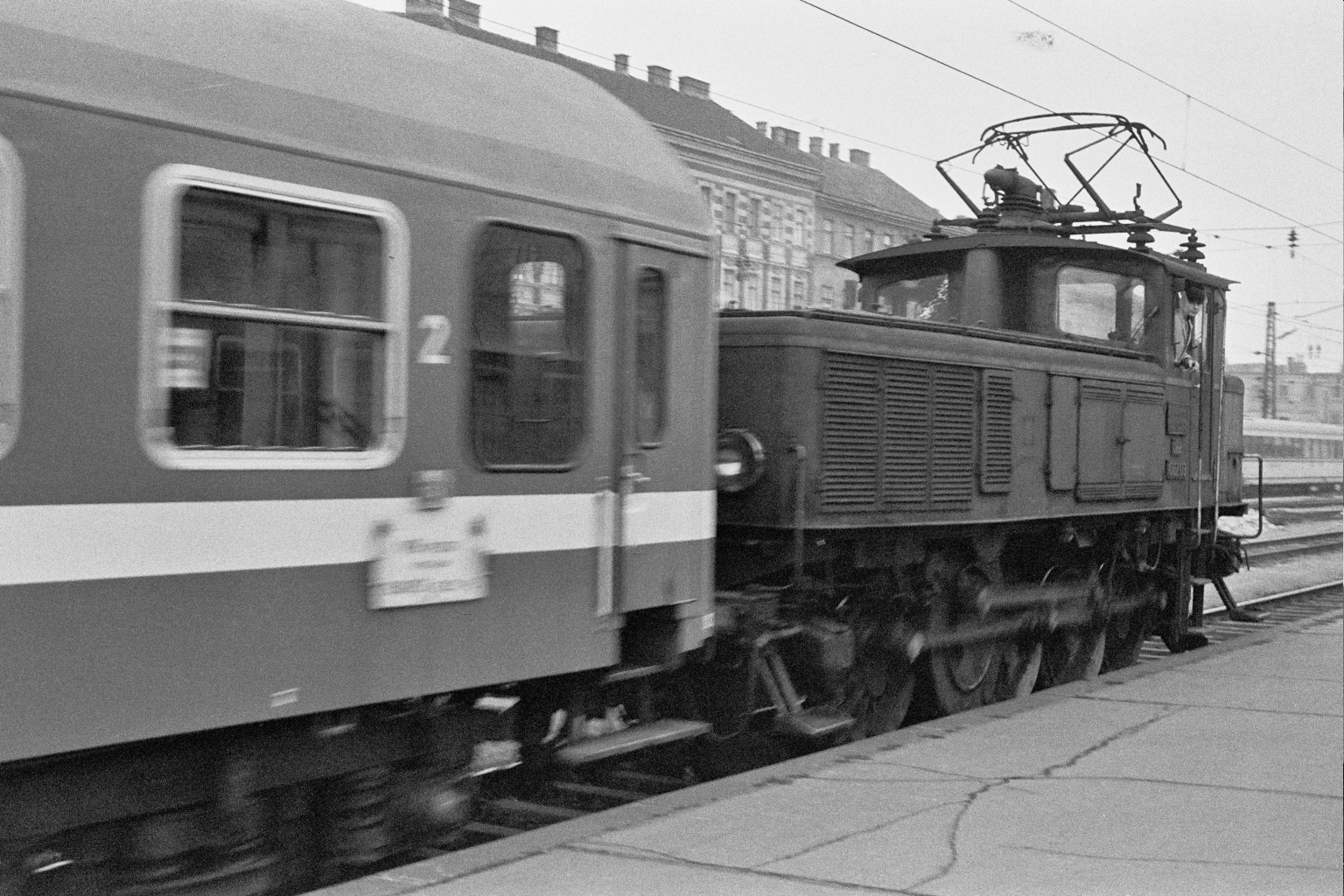 Electric shunter 1062.03 preparing the "Orient Express" in Wien Westbahnhof for its departure to Budapest and beyond.